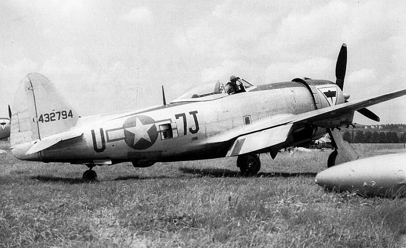 508th Fighter Squadron - Republic P-47D-30-RA Thunderbolt 44-32794